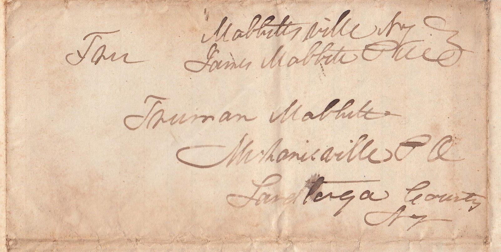 Letter from James Mabbett of Mabbettsville to his brother Trueman Mabbett. Described on ebay as "Handwritten letter of James Mabbett, 2pp legal, with integral cover to his brother, Truman Mabbett, Mechanicsville, NY, manuscript Mabbettsville NY, James Mabbett PM, Free." Topics include: land matters, politics, Harrison, log cabins, hard cider, Whigs. The text in this image should be transcribed and included in the description on this page. See also Transcription . The Google OCR tool may be of use in transcribing images.